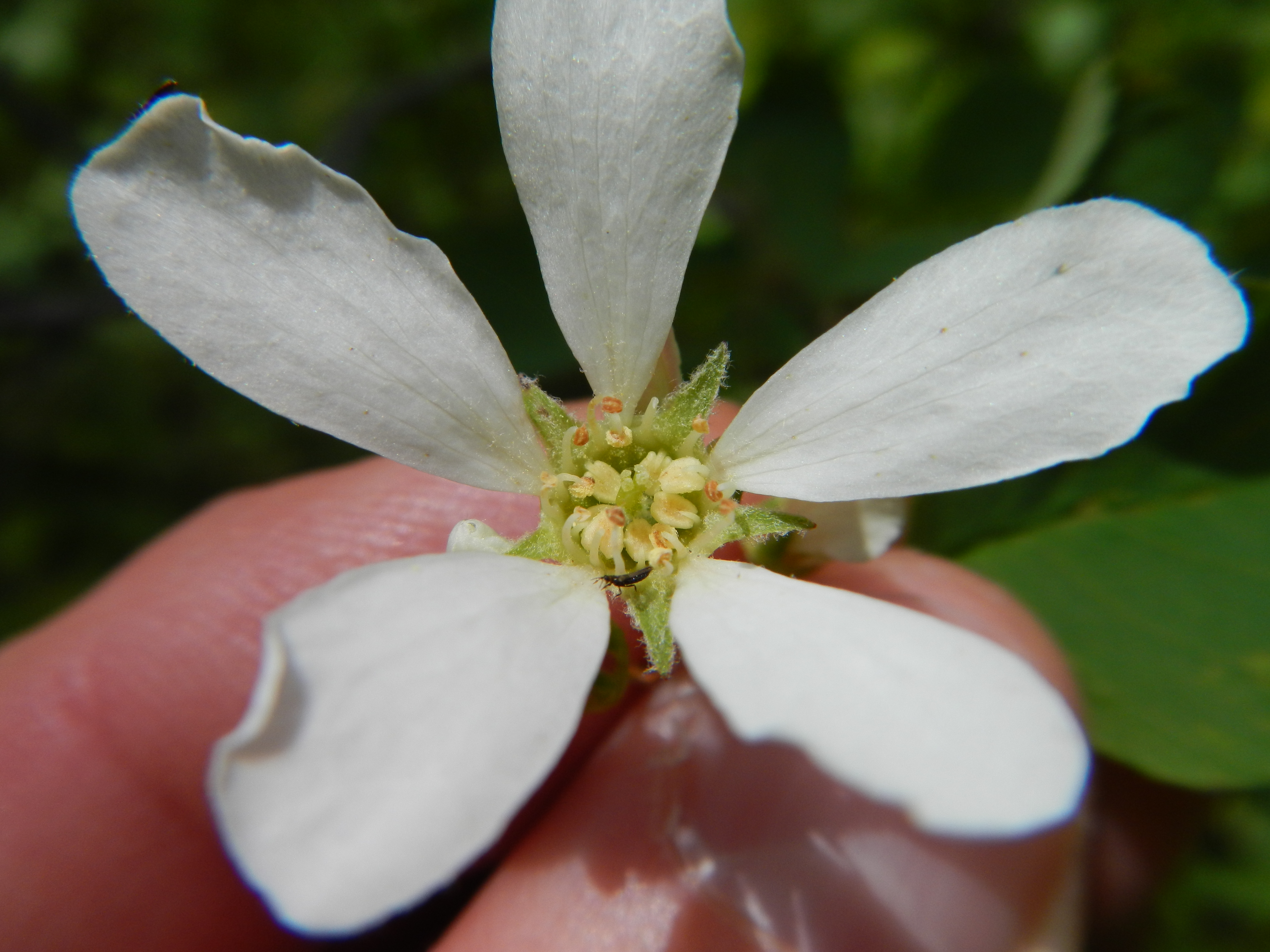 As in most Rosaceae, the hypanthium is made conspicous by the anthers arising from the rim of the cup.